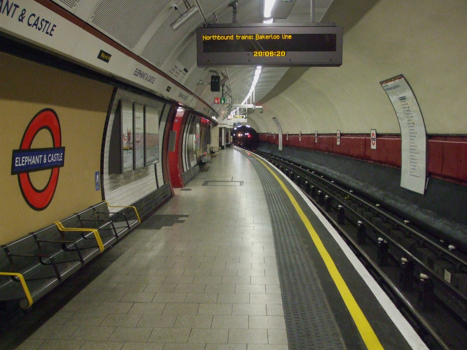 Elephant & Castle tube station western Bakerloo line platform looking south towards the sidings south of the station.